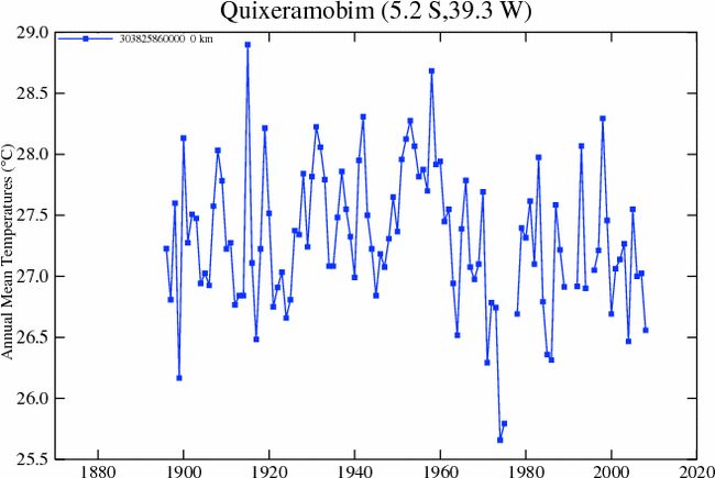 Climate graph of 1896 2008 air average temperaturas of Quixeramobim, Ceará State, Brazil